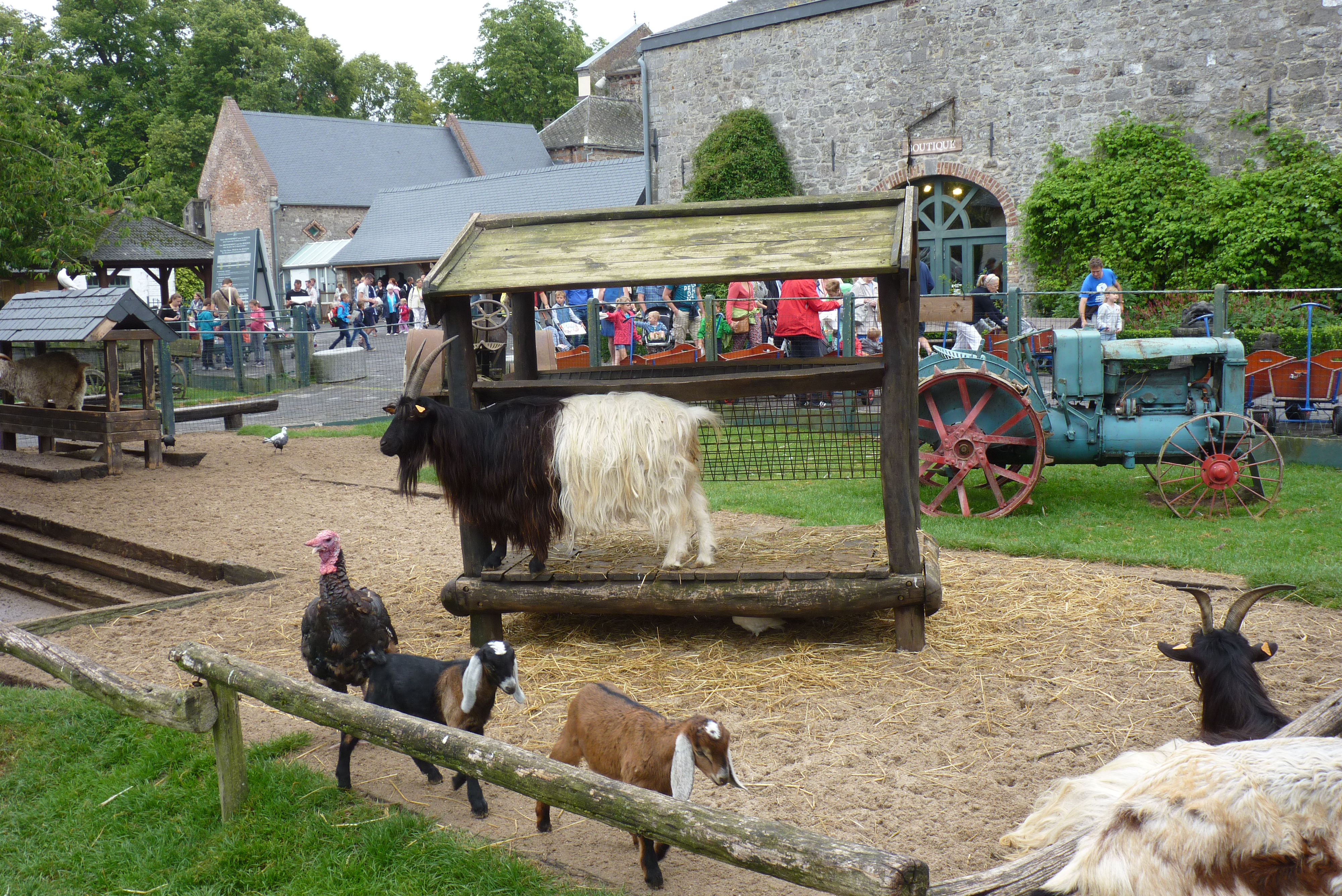 Mini-farm in Pairi Daiza